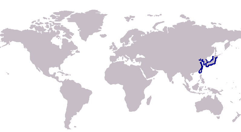 Distribution of Japanese whiting, Sillago japonica using map based on GDFL image